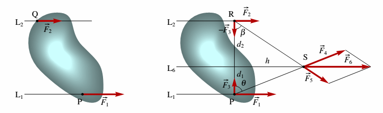 vetor